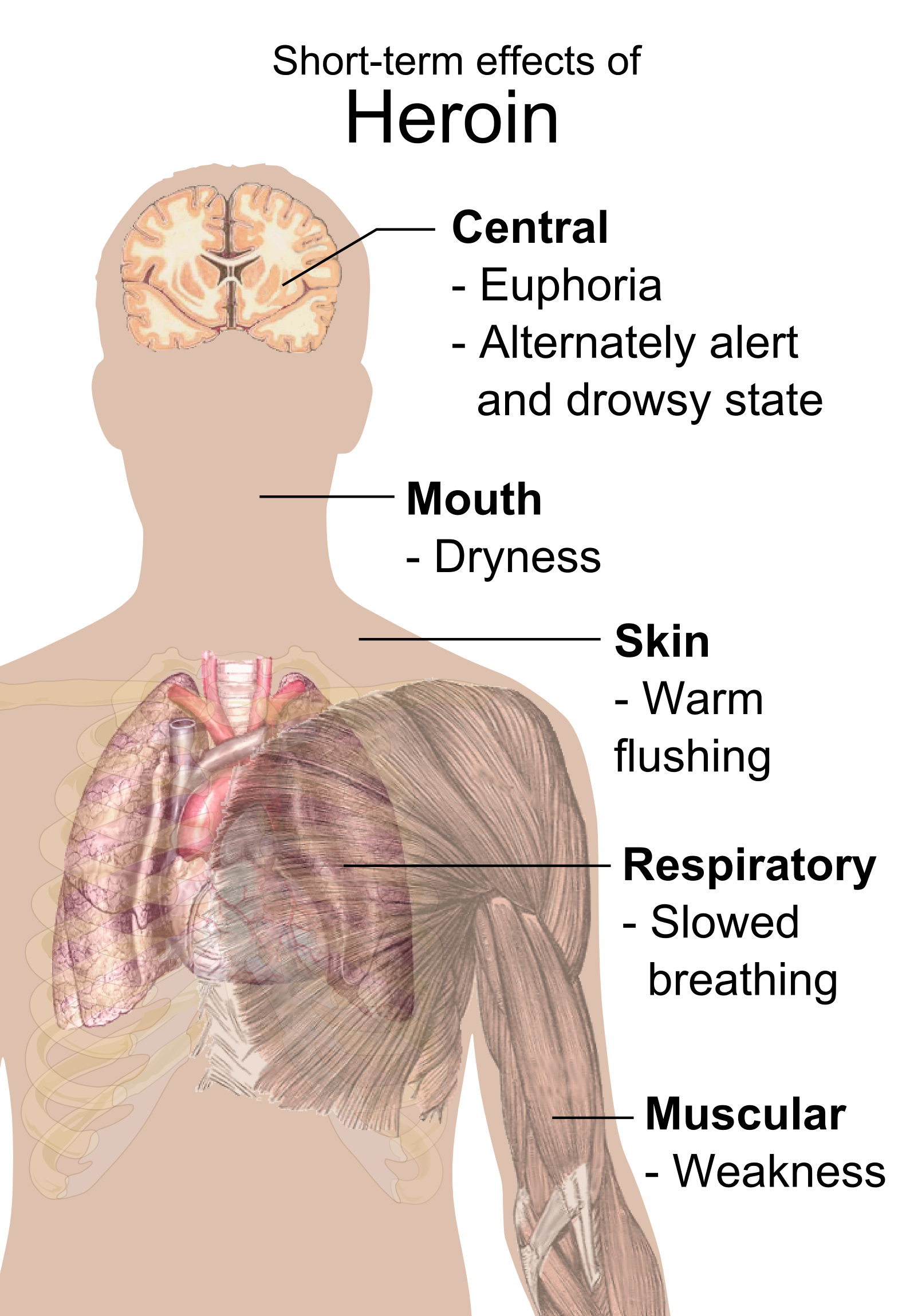 Main short-term effects of heroin (See Wikipedia:Heroin#Usage and effects). References: Office of National Drug Control Policy (ONDCP): Heroin Facts & Figures Retrieved on 11 February, 2009 To discuss image, please see Template talk:Human body diagrams